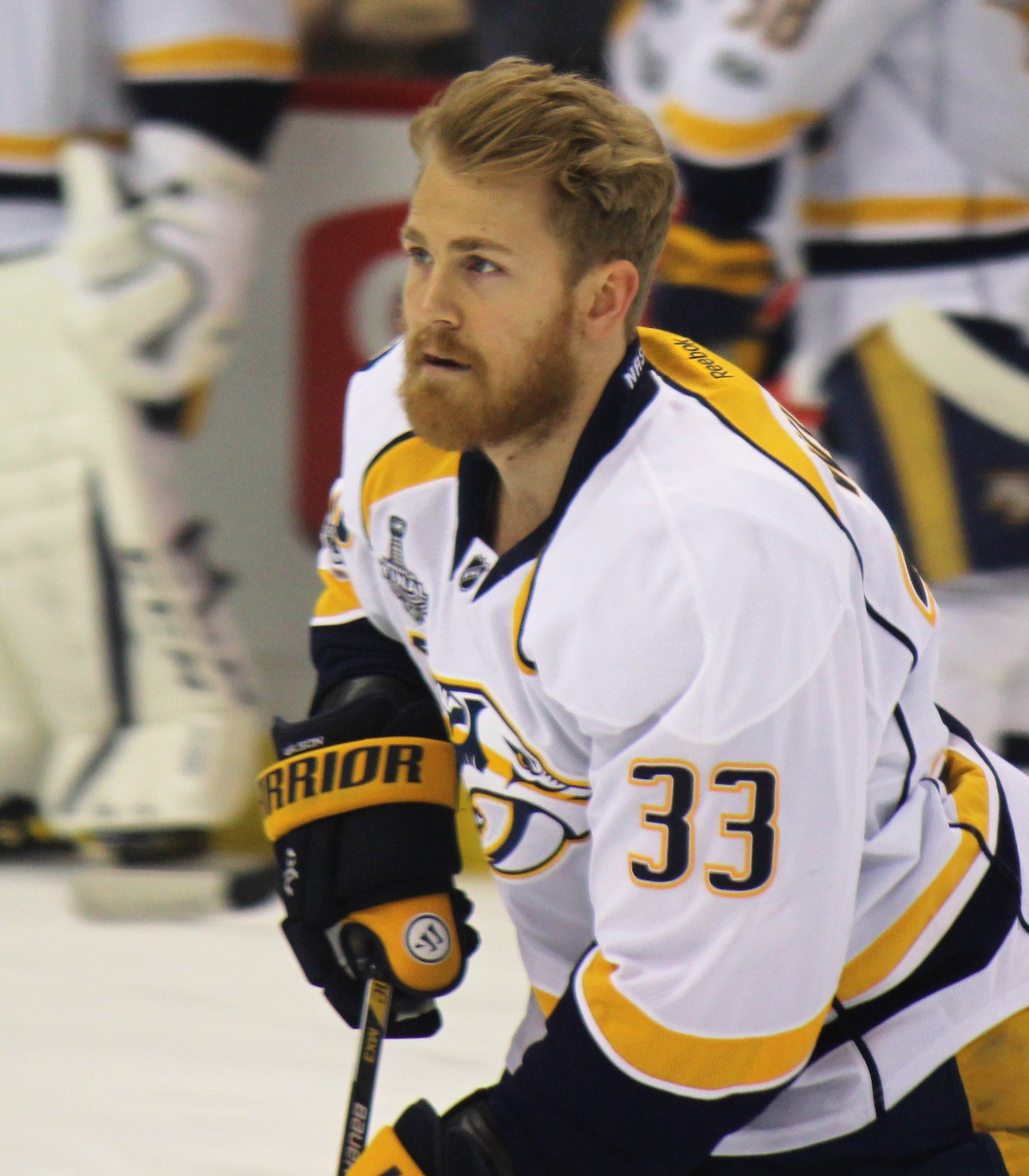 Nashville Predators forward Colin Wilson during game 5 of the Stanley Cup Final against the Pittsburgh Penguins, June 8, 2017, at PPG Paints Arena in Pittsburgh, PA.